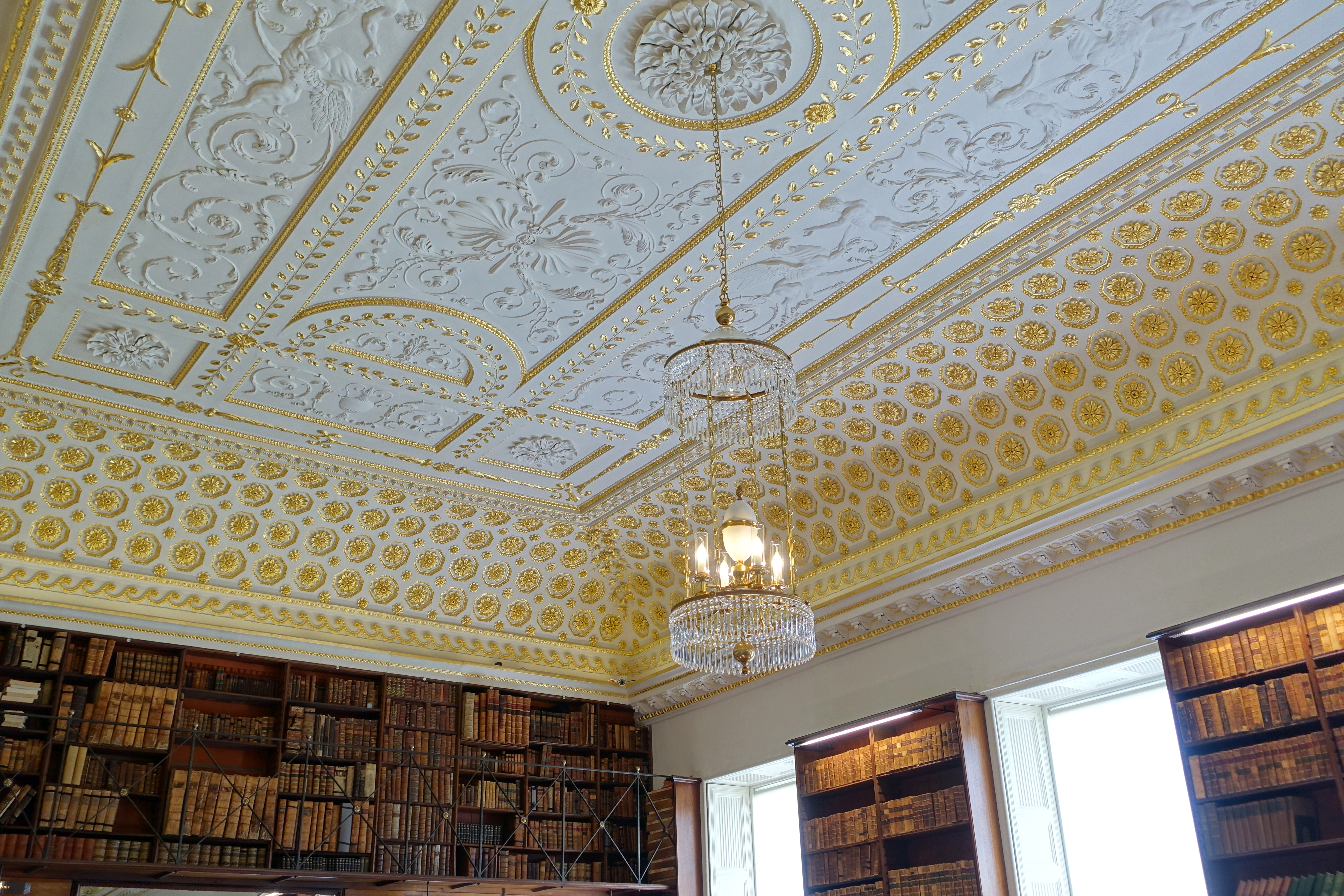 Interior view of Stowe House - Buckinghamshire, England.